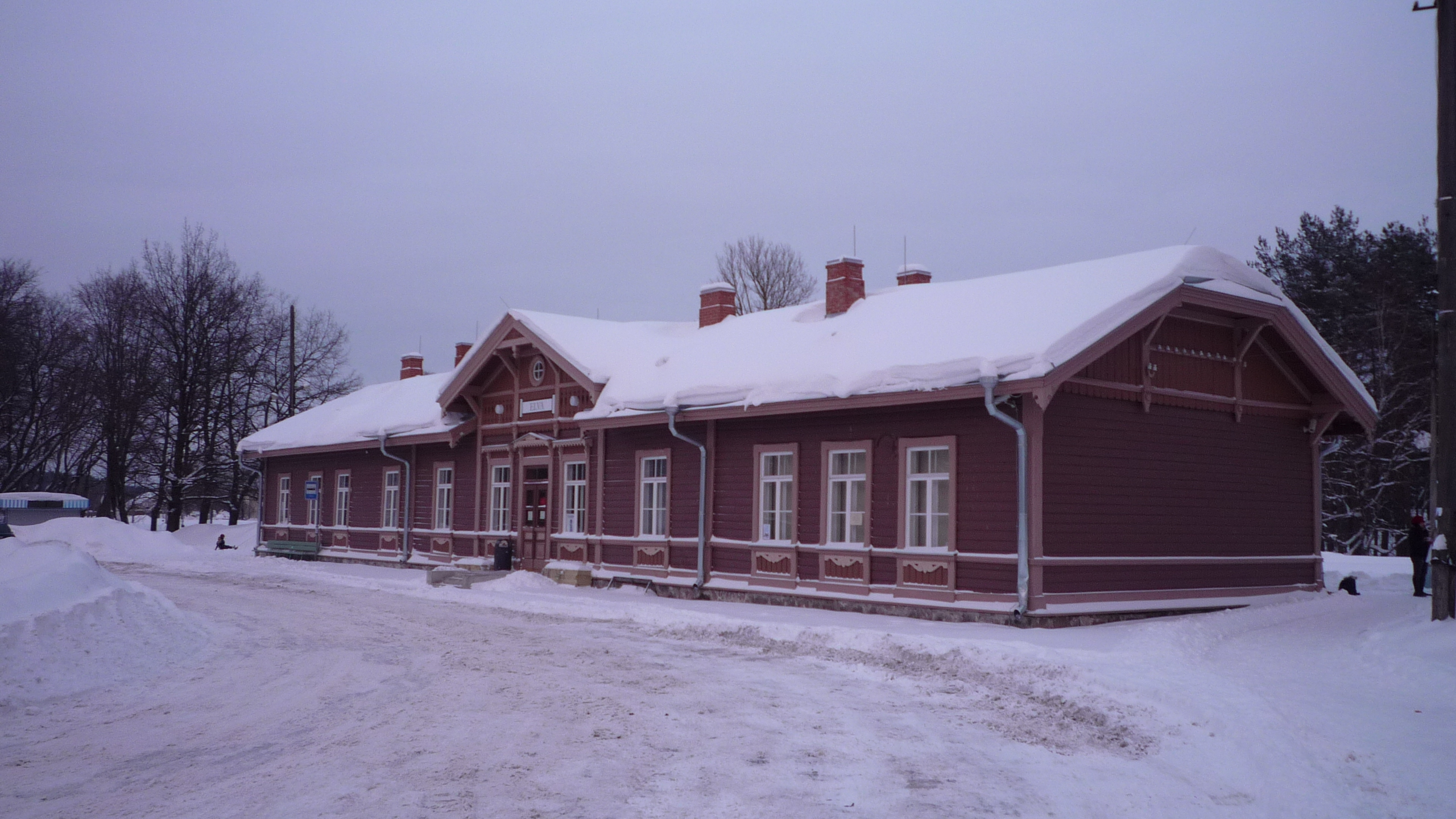 Elva railway station building. Elva town, Tartu county, Estonia.